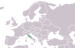 Distribution of Speleomantes italicus, based on Nöllert/Nöllert: "Die Amphibien Europas"